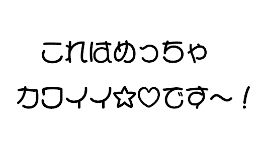 example of maru-ji, a Japanese handwriting style